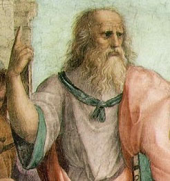 The School of Athens (detail). Fresco, Stanza della Segnatura, Palazzi Pontifici, Vatican.